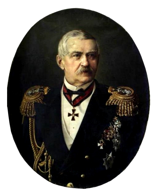 Portrait of Login Loginovich Heiden (1806 — 1901), Russian admiral